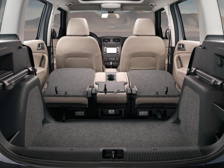 Skoda-Yeti-interior-back